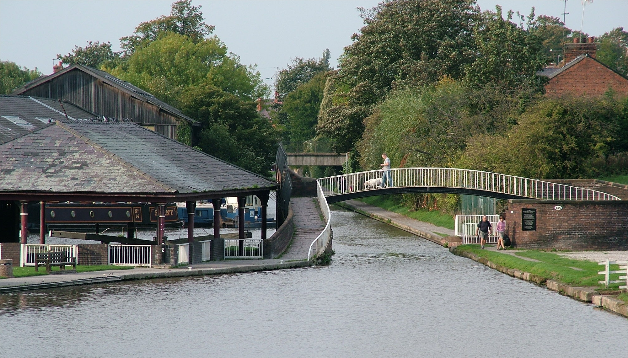 Chester Canal Basin, Raymond Street, Chester By and copyright Tagishsimon